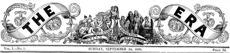 Scan of the banner at the head of page 1 of the first issue of The Era (newspaper), 1838. Long out of copyright.